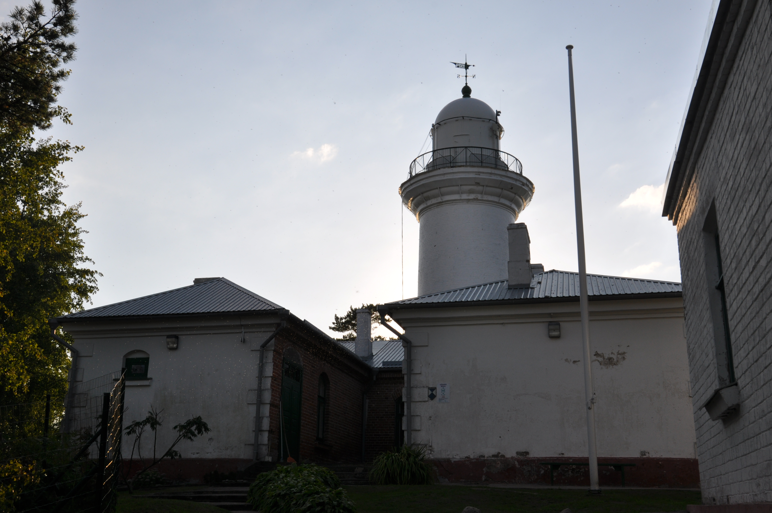 Užava lighthouse